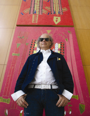 Francis Mallmann